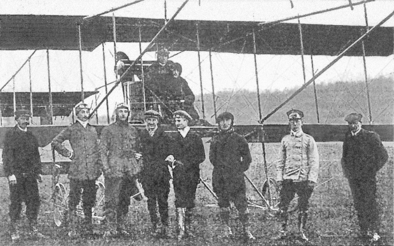 The opening of the "Herzog Carl Eduard Herren-Fliegerschule", in Gotha (then Duchy of Saxony-Coburg and Gotha, contemporary Thuringia, Germany) in 1912. The depicted persons are (from left to right): K. Müller, mechanic (it has given both a Karl Müller and a Kurt Müller as aircraft mechanics in 1912) B. Eggert, engineer of the airship station Gotha Hermann, Lieutenant of the Royal Saxon Railway Regiment No. 2 in Schönberg (Kingdom of Saxony) Ernst Schlegel (1882-1976), engineer and director of the school von Osterroth, Lieutenant of the Infantry Regiment No. 152 in Marienburg (then West Prussia, contemporary Malbork in Poland) Linke, Lieutenant of the Fusilier Regiment No. 34 in Stettin (then West Pomerania, contemporary Szczecin in Poland) (Kurt ?) von Mirbach, Lieutenant of the Infantry Regiment No. 78 in Braunschweig (then Duchy of Braunschweig, contemporary Lower Saxony, Germany) Grundel (...or Grindel ?), a mechanic from Berlin in the aircraft at the steering: Arthur Faller (1887-1965), flight pioneer and teacher of the school for bi-planes in the airplane as passenger: Geyer, Lieutenant of the Regiment No. 95 in Gotha (then Duchy of Sachsen-Coburg and Gotha; contemporary Thuringia, Germany) This photo was made on the airfield of the flight school in Gotha, shortly after the foundation of the "Herzog Carl Eduard Herren-Fliegerschule" on 1 April 1912.